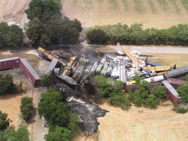 Ariel Image of Union Pacific train derailment in Macdona, Texas, a rural community near San Antonio.